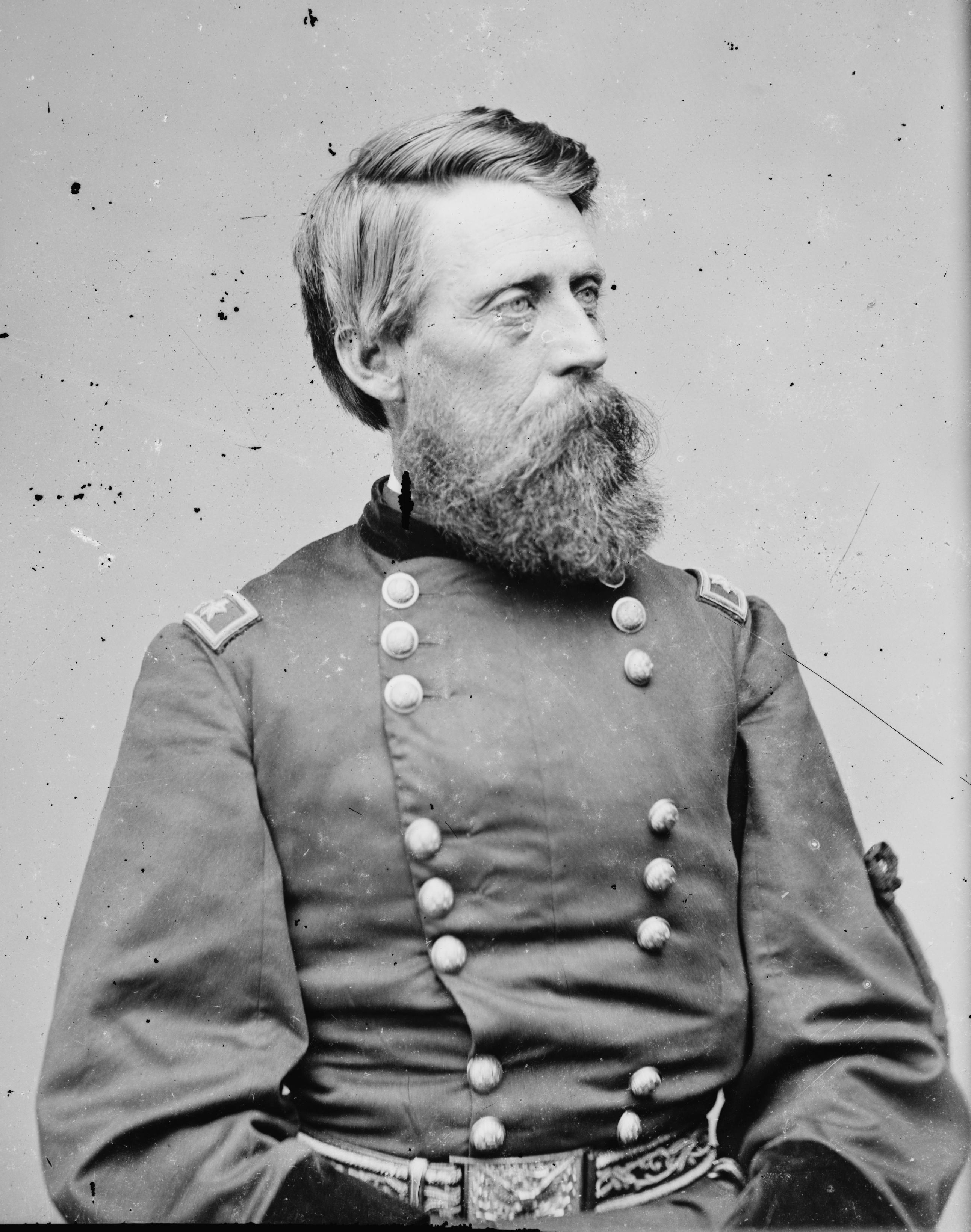 General Jefferson C. Davis. Library of Congress description: "Gen. Jefferson Davis, U.S.A."